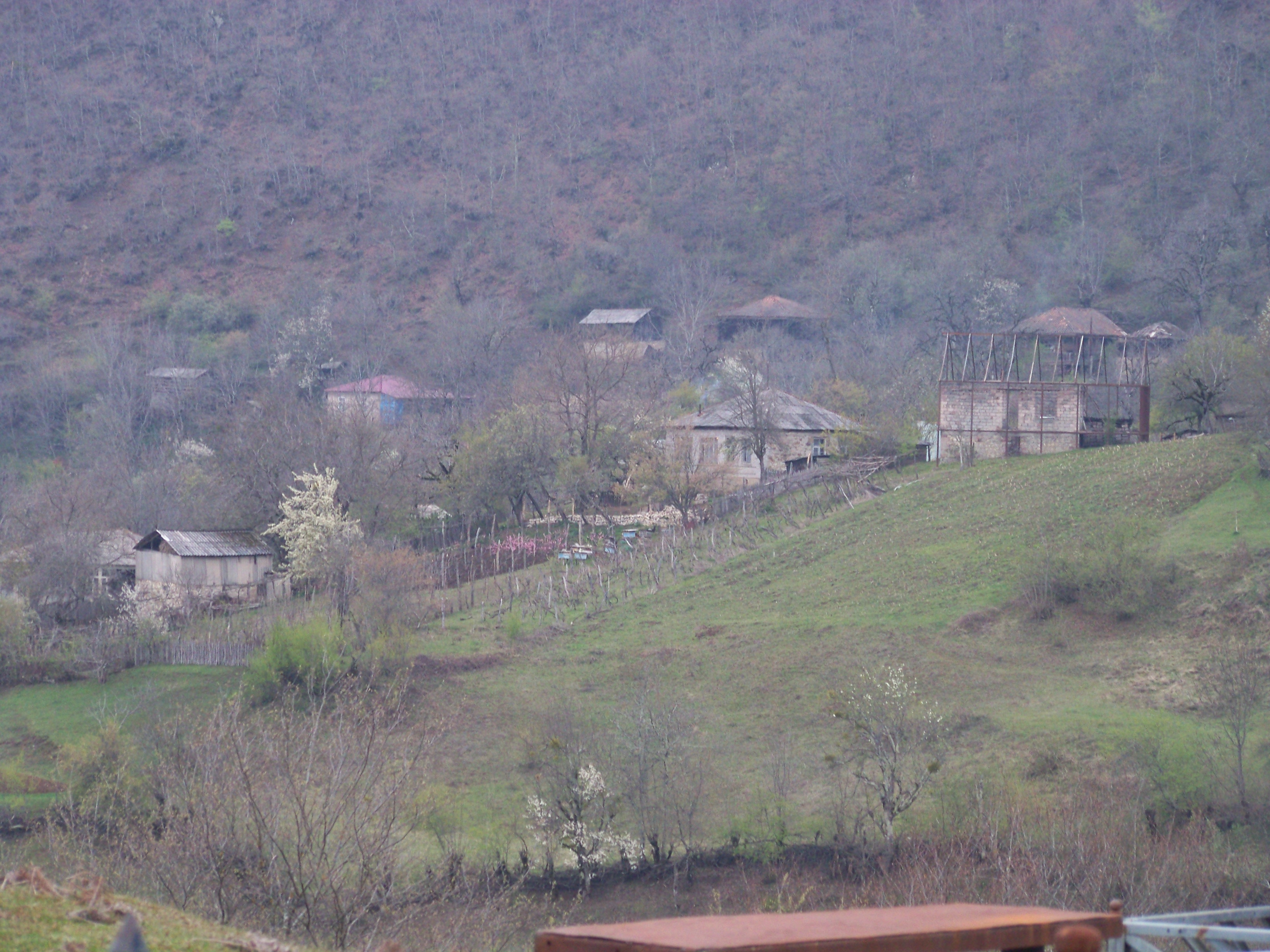 ბაჯითის უბანი გაღმამთა (საჩხერე)